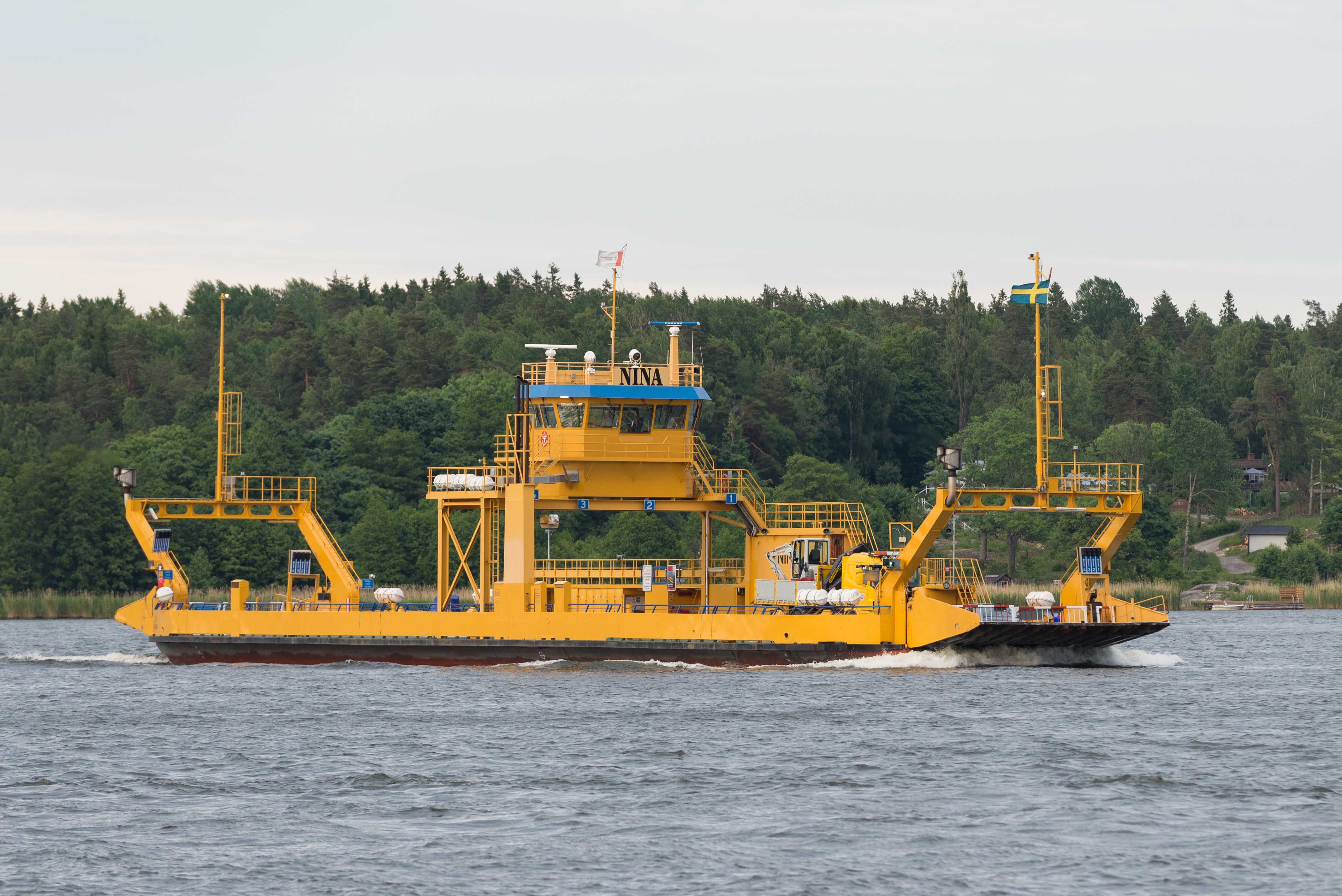 Road ferry Nina at Vaxholmsleden route (between Vaxholm andRindö). The route are part of Swedish country road 274.